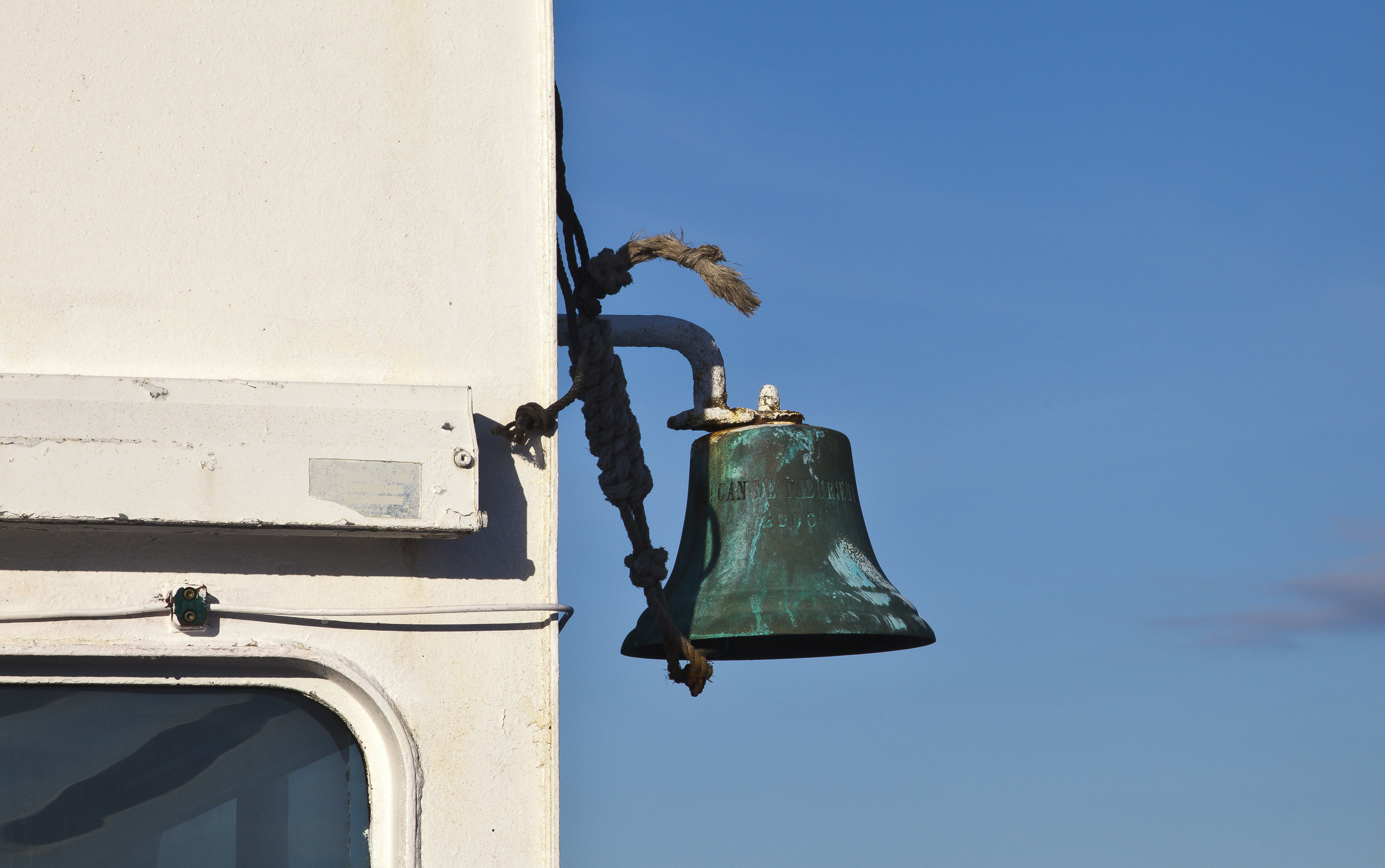 Bell, vessel Volcan de Taburiente, Tenerife, Spain